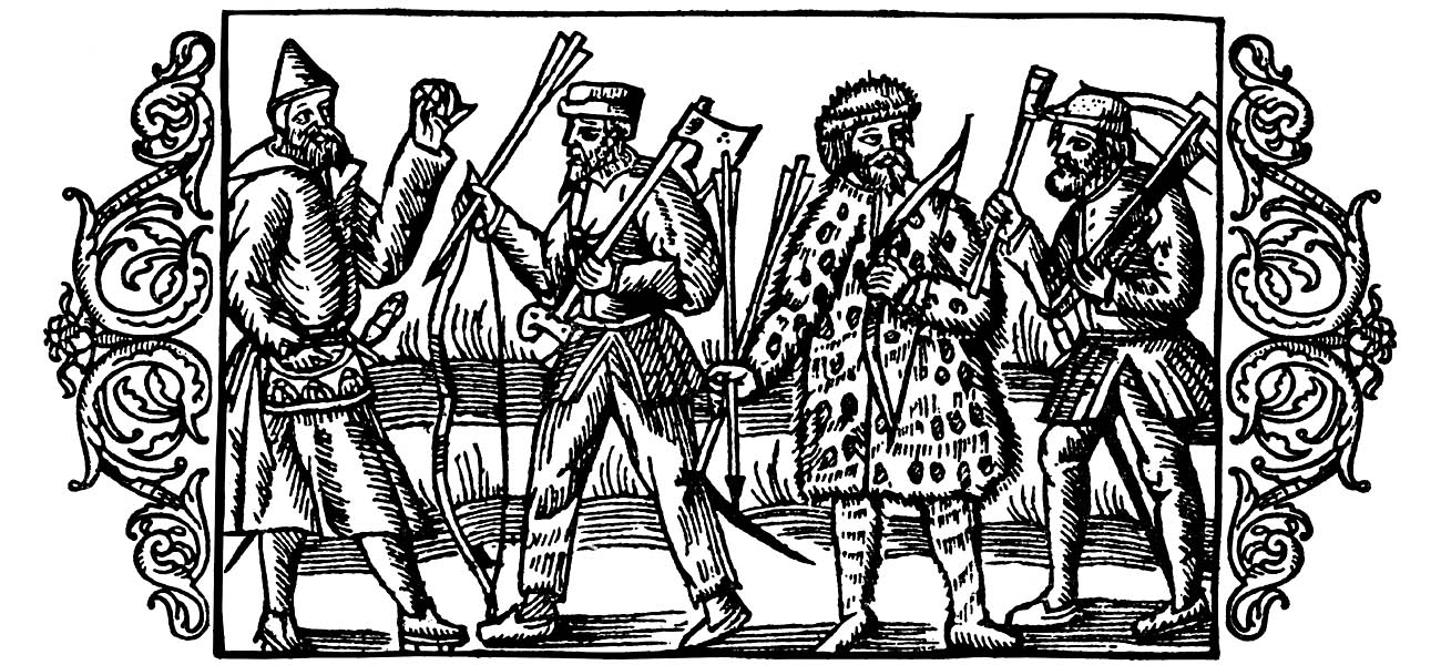 To the left a Muscovite showing a false coin. Next a Swede, armed with broadaxe, bow and arrow and sword. Next a Lap in fur coat and with bow and arrow. To the right a Geat with a crossbow.